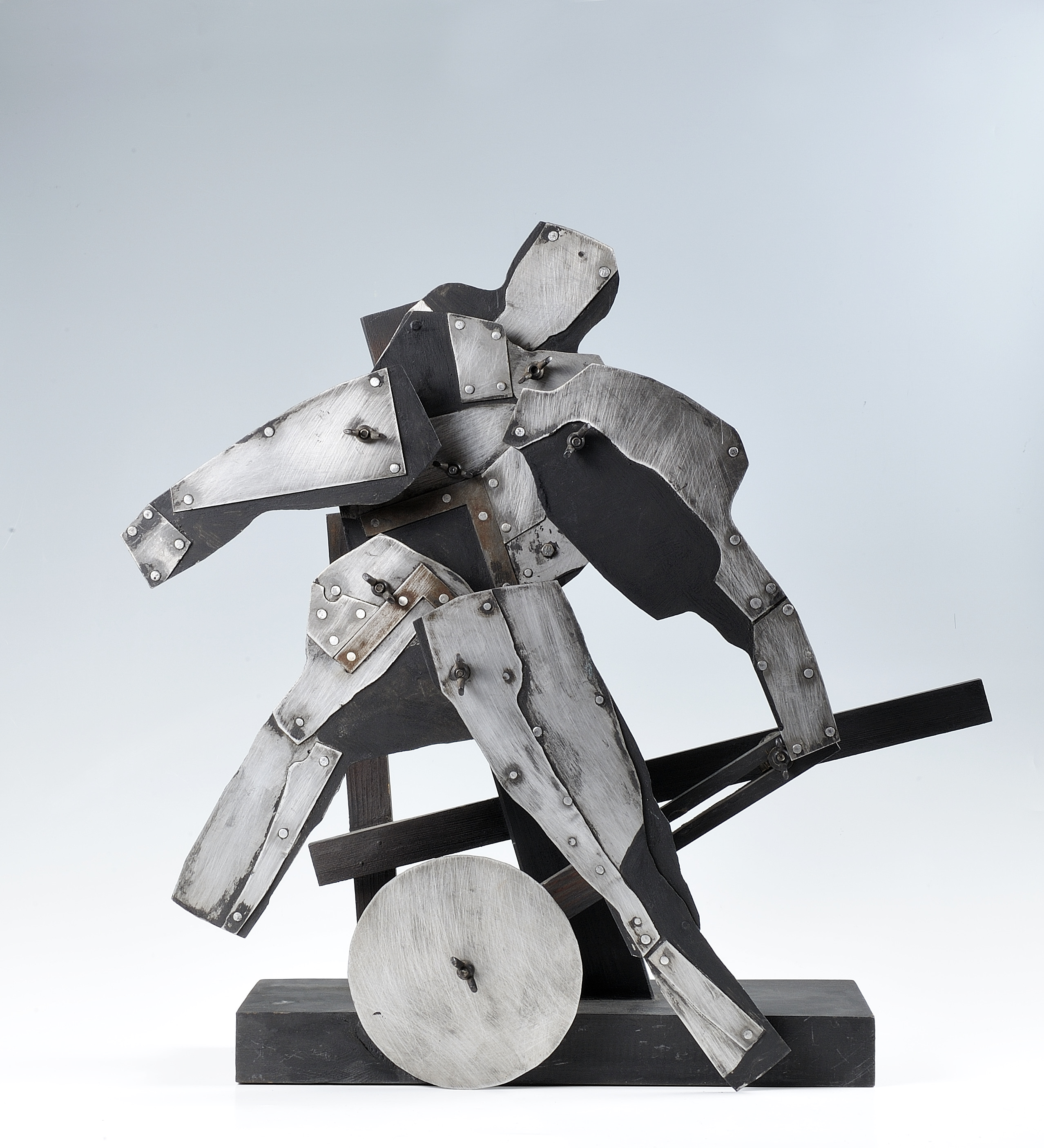 Variable sculpture Figure with the ball (1984), wood, metal sheet, screws and nuts, height 67 cm